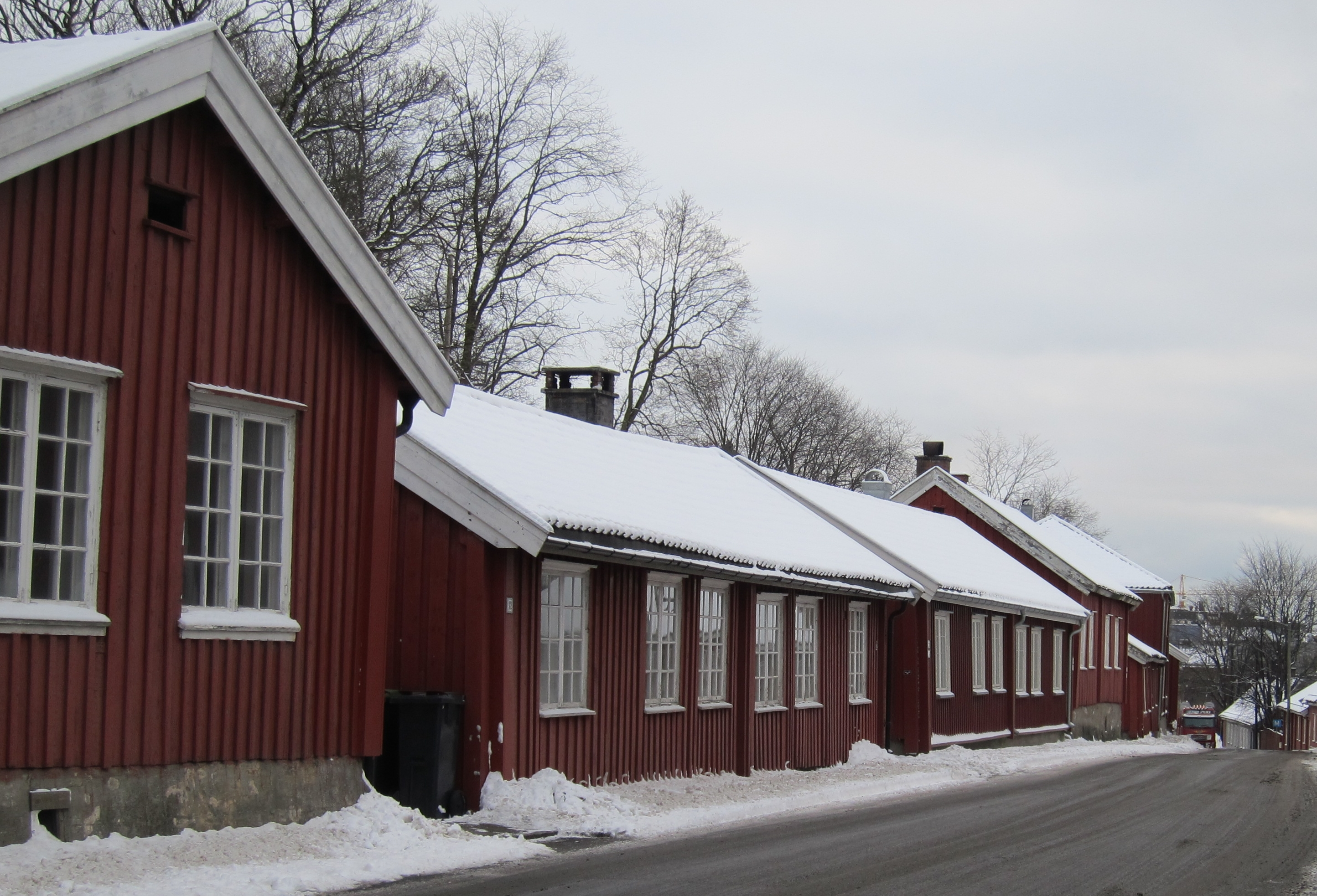 Old wooden house, originally for Moss Ironworks (Moss Jernverk in Norwegian) workers in Moss, Norway. The houses are on the eastern side of the road passing through. The road was in earlier times the main road from Christiania to Gothenburg.